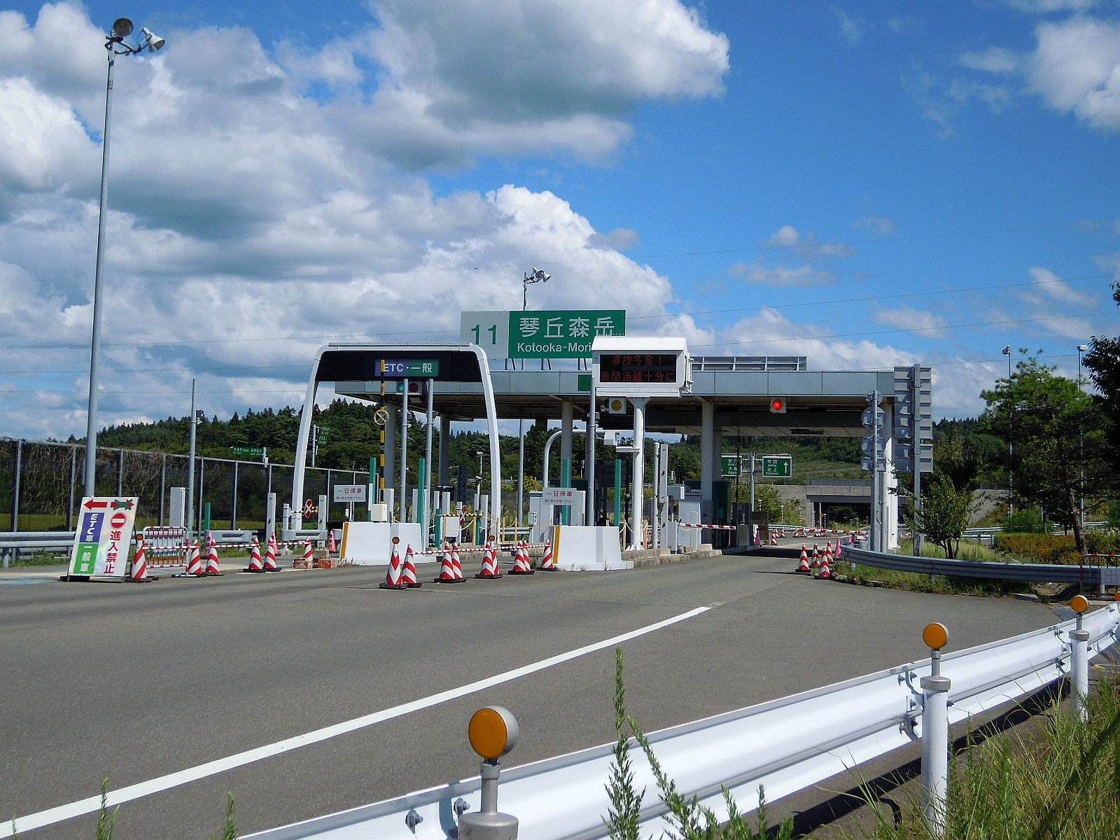 This Interchange, Kotooka-Moritake Interchange, is on Akita Expressway, in Mitane Town, Akita Prefecture, Japan.